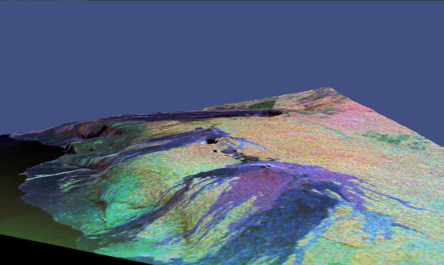 NASA space-radar false-color image of Kilauea, Hawaii. This is a three-dimensional perspective view of a false-color image of the eastern part of the Big Island of Hawaii. It was produced using all three radar frequencies -- X-band, C-band and L-band -- from the Spaceborne Imaging Radar-C/X-Band Synthetic Aperture Radar (SIR-C/X-SAR) flying on the space shuttle Endeavour, overlaid on a U.S. Geological Survey digital elevation map. Visible in the center of the image in blue are the summit crater (Kilauea Caldera) which contains the smaller Halemaumau Crater, and the line of collapse craters below them that form the Chain of Craters Road. The image was acquired on April 12, 1994 during orbit 52 of the space shuttle. The area shown is approximately 34 by 57 kilometers (21 by 35 miles) with the top of the image pointing toward northwest. The image is centered at about 155.25 degrees west longitude and 19.5 degrees north latitude. The false colors are created by displaying three radar channels of different frequency. Red areas correspond to high backscatter at L-HV polarization, while green areas exhibit high backscatter at C-HV polarization. Finally, blue shows high return at X-VV polarization. Using this color scheme, the rain forest appears bright on the image, while the green areas correspond to lower vegetation. The lava flows have different colors depending on their types and are easily recognizable due to their shapes.